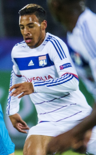 Corentin Tolisso